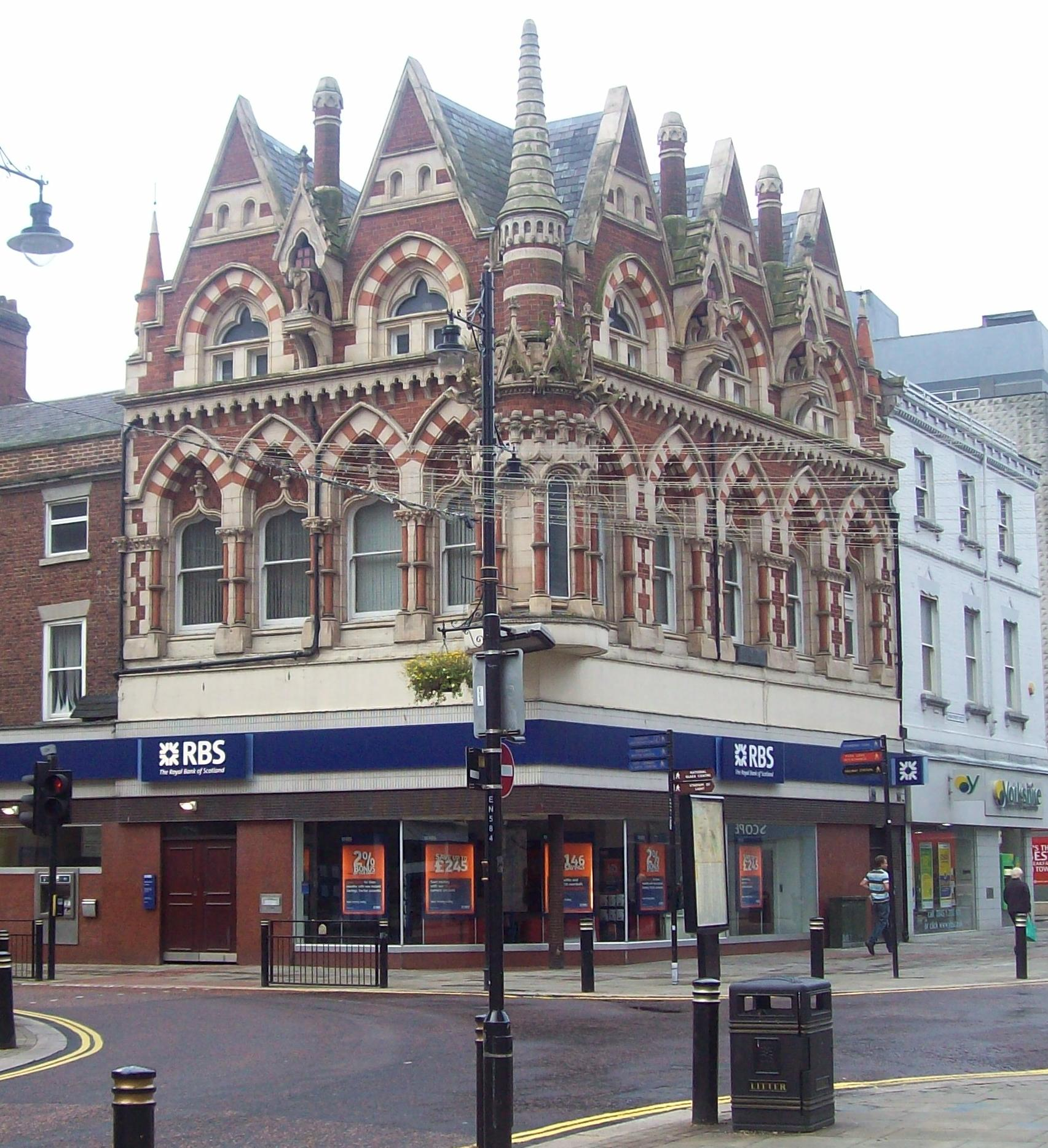 The Elephant Tea Rooms, on the corner of Fawcett Street and High Street West, Sunderland